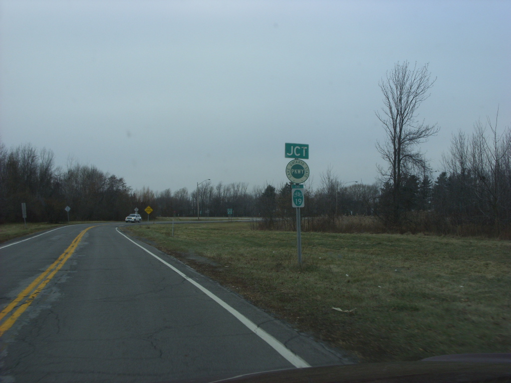 Approaching the northern terminus of New York State Route 19 at the Lake Ontario State Parkway in Hamlin.